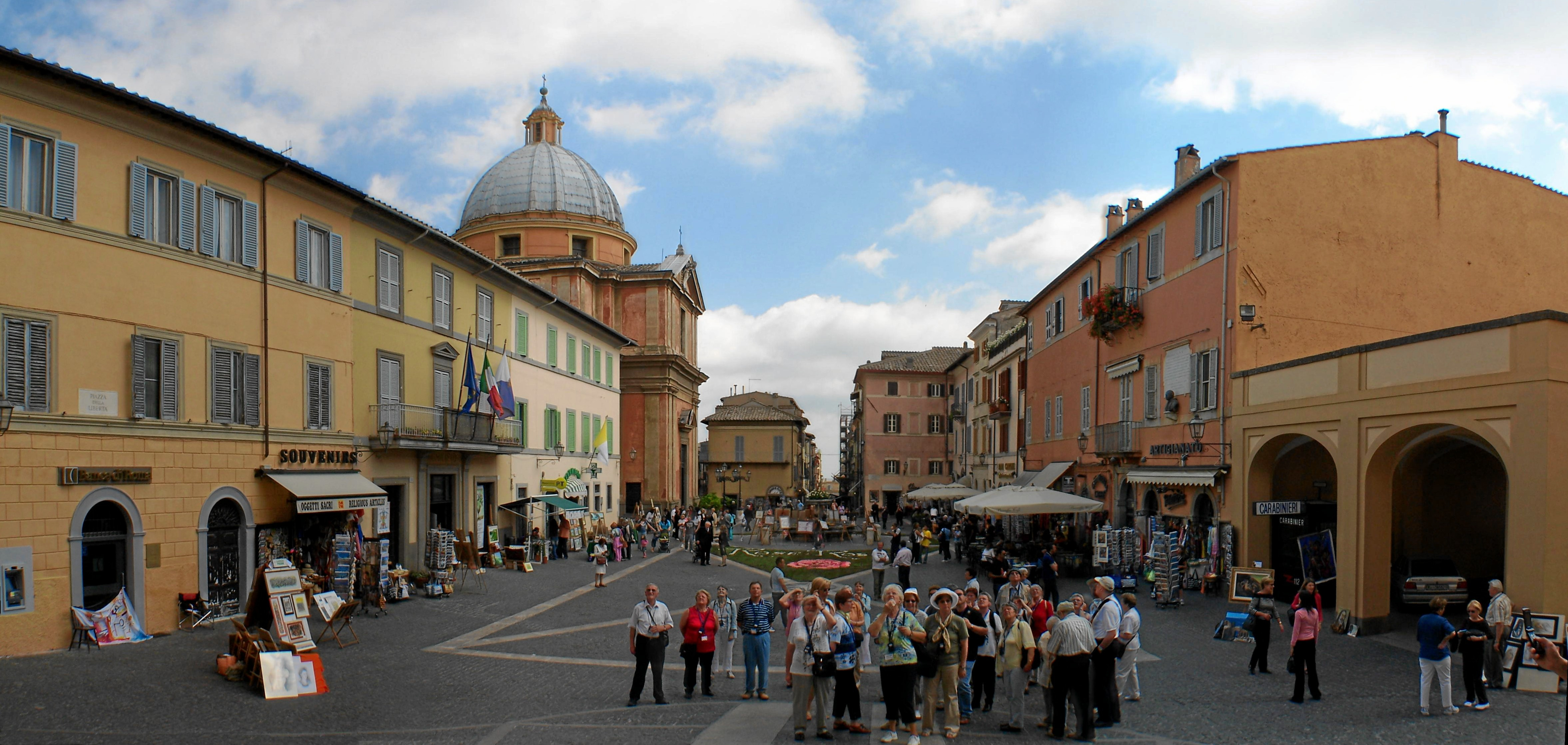 Piazza della Libertà in Castel Gandolfo with the collegiate church of San Tommaso.